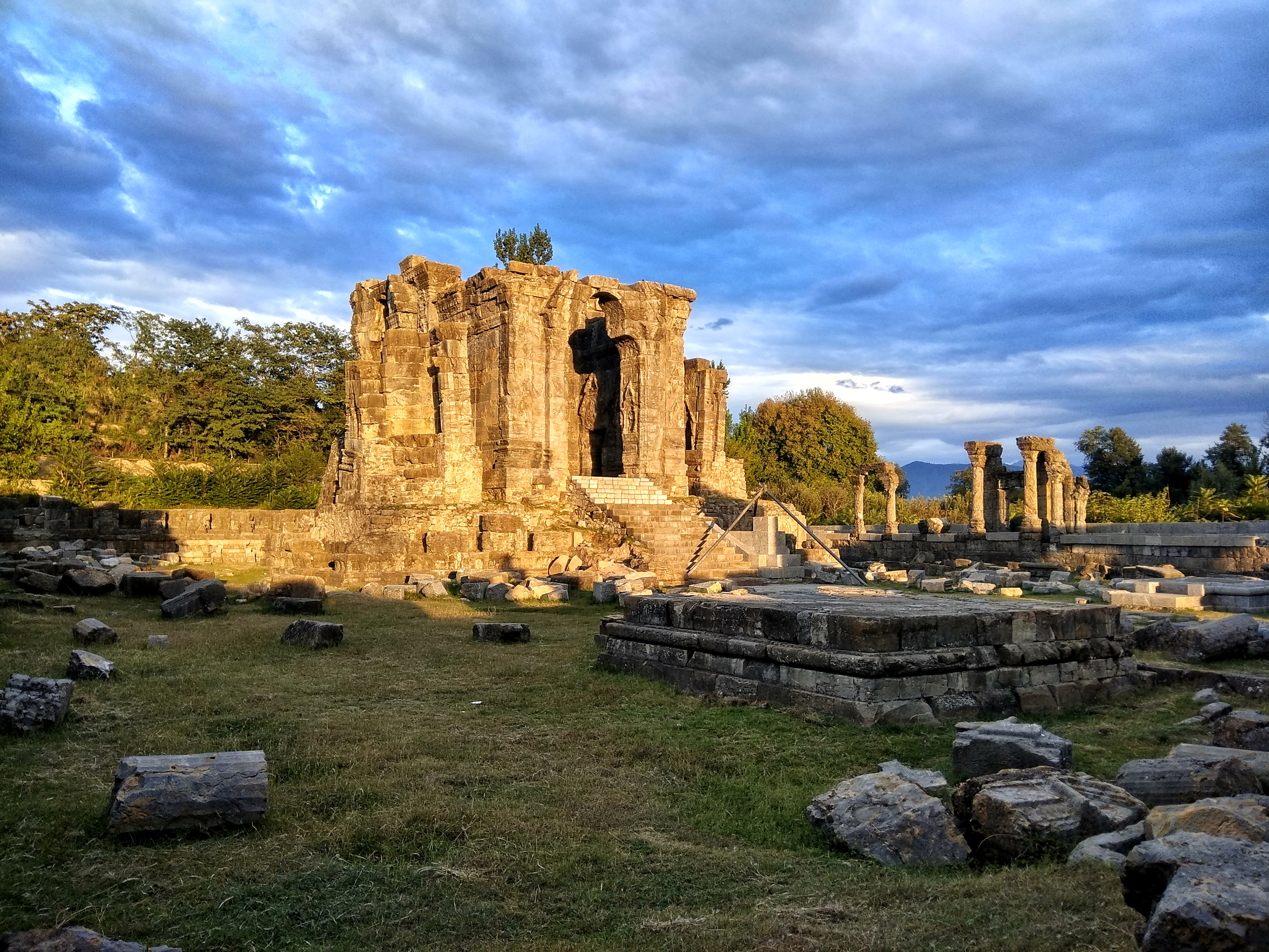 The Valley of Kashmir was known as the 'Holy city' of Hindus in old times and almost every place show some relic antiquity of this fact.Martand(Modern Mattan)-Sun Temple is one such illustration.It is a precious specimen of ancient art-curious stone miniatures,phallic emblems and carved images.They are known to be the works of 'Pandavas' that is why locally it is called 'Pandav Land' I.e the land or house of Pandavas.Pandavas were giant size humans who could lift mighty and bulky things easily.As the name Martand(Sun) suggests that the temple was dedicated to the Sun.The temple is located five miles from Anantnag. Martand-Sun Temple was founded within the limits of one century or between A.D 370-500.There was always a debate among historians on the foundation of this temple.The colonnade is recorded in the Rajtarngini as the work of Laltaditya and the same authority says it was built by Ranaditya.The temple was destroyed by the bigoted Sikander also known as But-Shikan,Butcher of Kashmir,Iconoclast.He was reigning at the period of Timure's invasion of India.